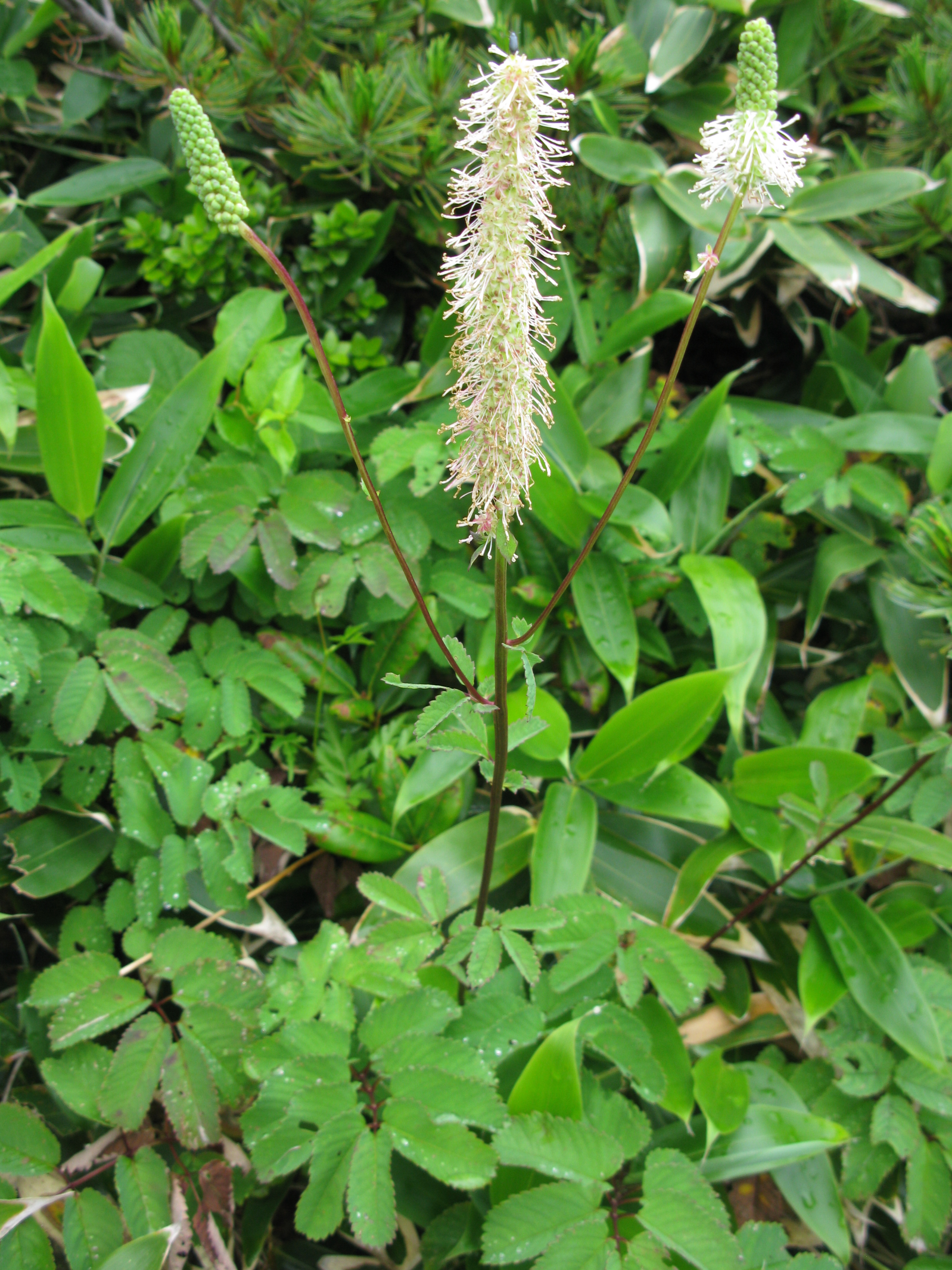 Sanguisorba stipulata, Mount Shibutsu, Gunma pref., Japan